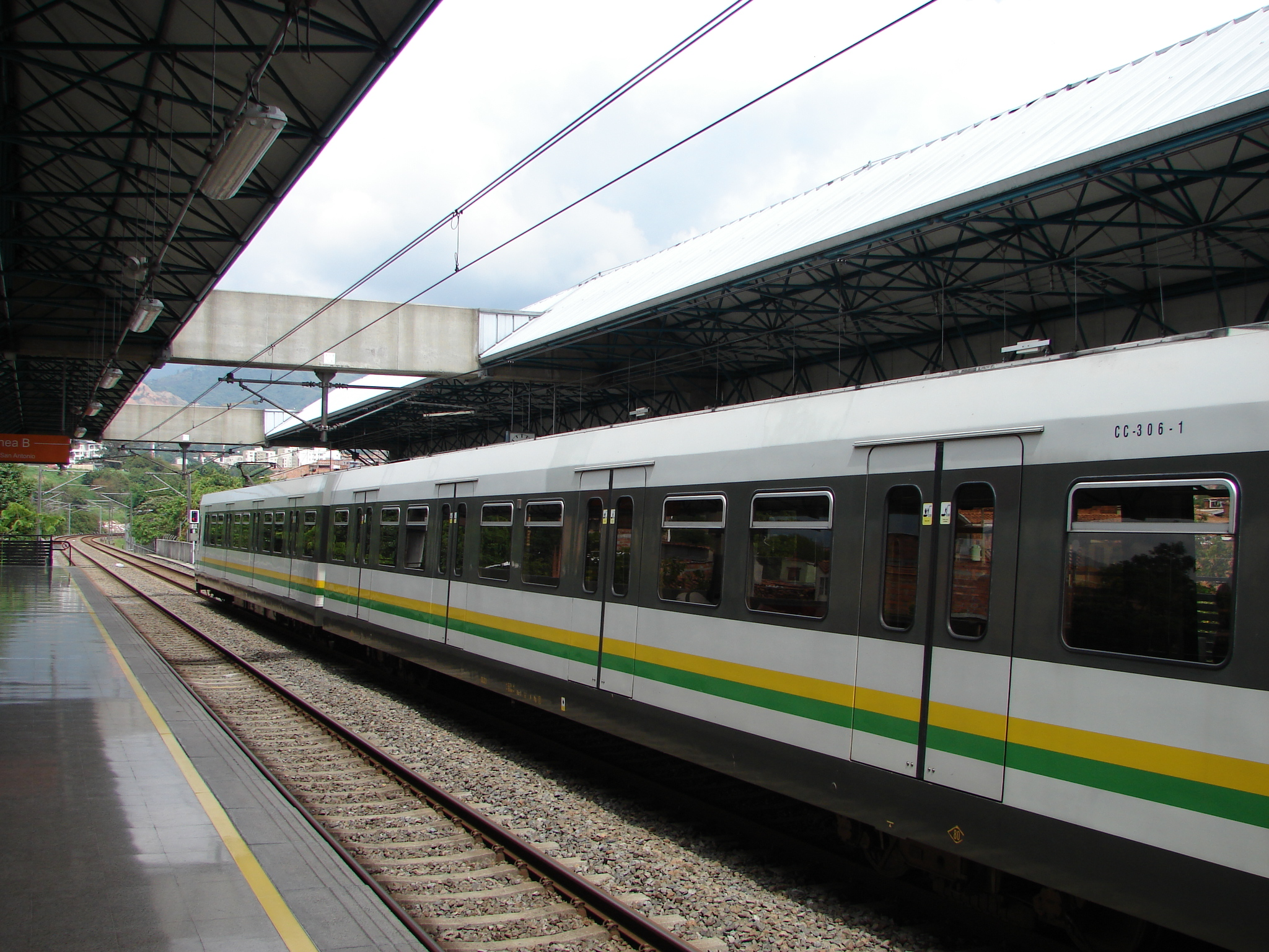 Medellin metro